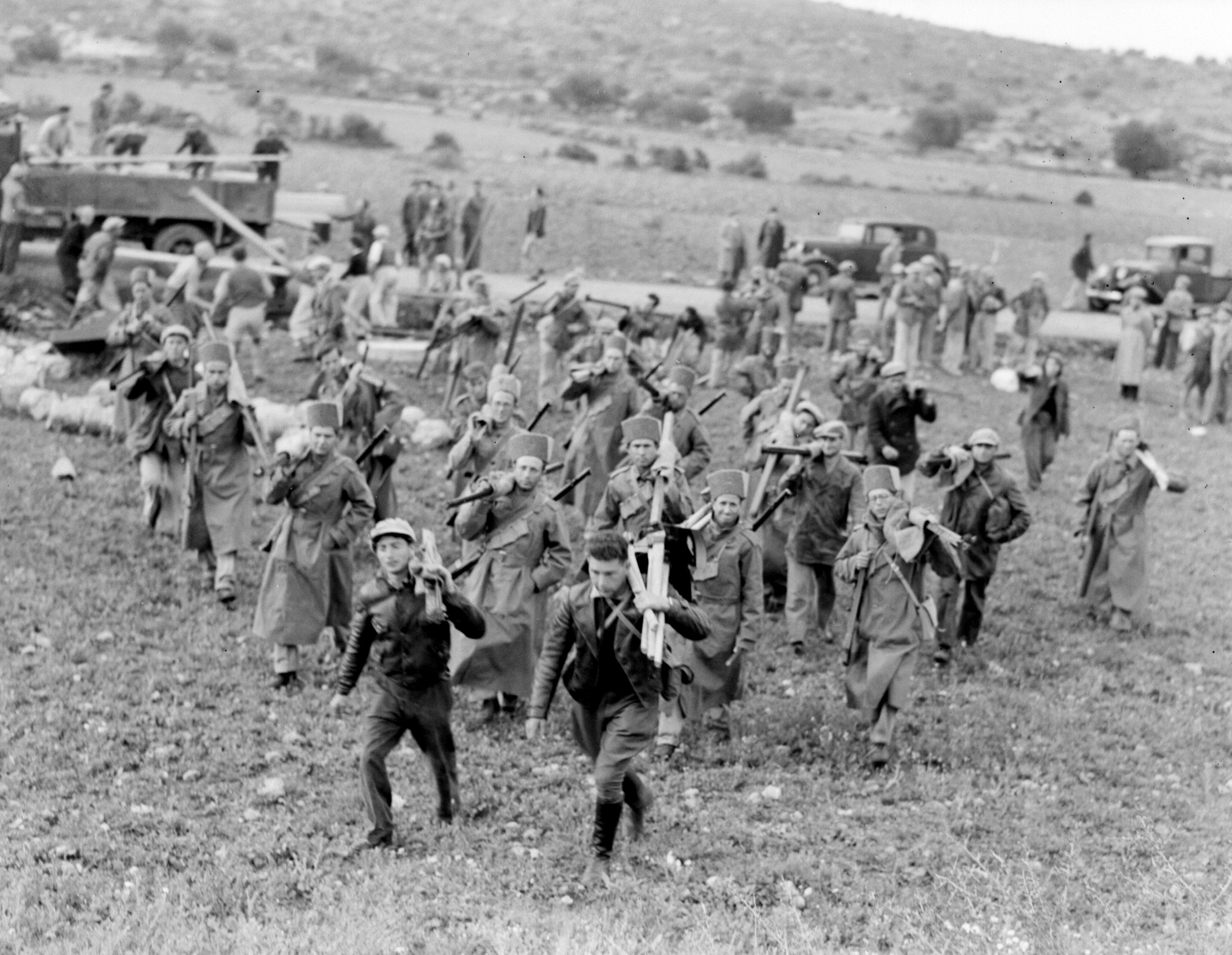 THE ESTABLISHMENT OF KIBBUTZ HANITA IN THE WESTERN GALILEE. IN THE PHOTO: JEWISH POLICEMEN & HAGANA MEMBERS CARRYING TOOLS & BUILDING MATERIAL (21.3.1938).